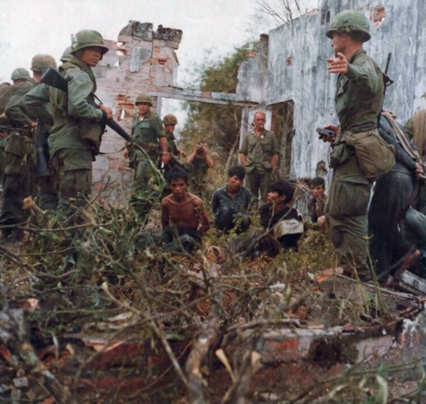 Members of the 2nd Battalion, 503rd Airborne Infantry, 173rd Airborne Brigade guard Viet Cong prisoners captured in the Thanh Dien Forest awaiting interrogation, during Operation Cedar Falls in the Iron Triangle.